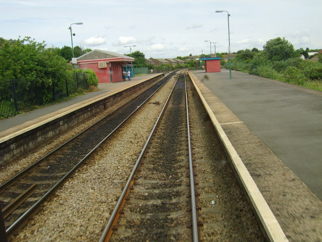 Cadoxton railway station Original description: Cadoxton Railway Station Looking towards Cardiff.